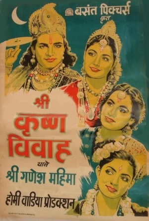 Poster for the Hindi film Shri Ganesh Mahima.